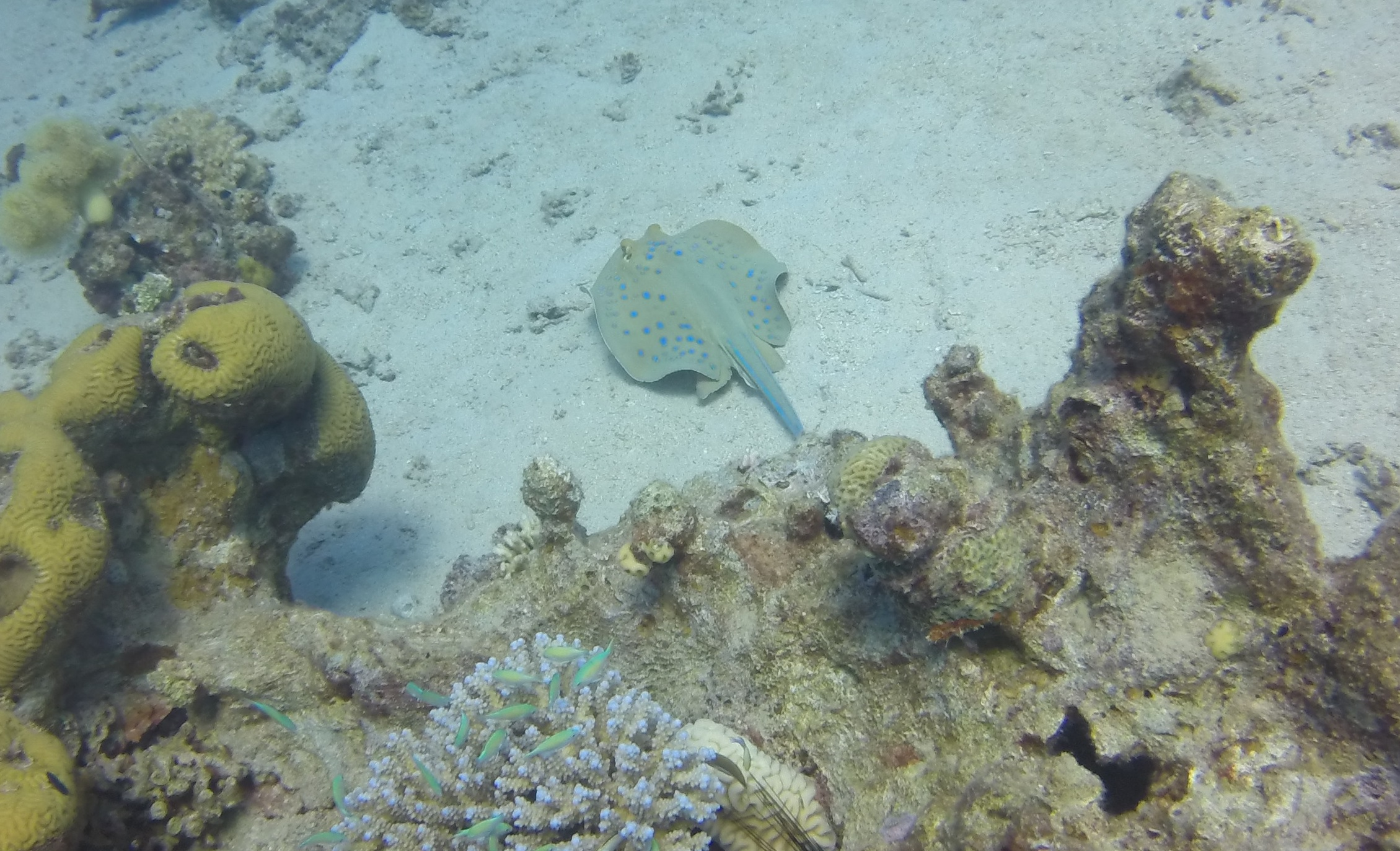 Bluespotted ribbontail ray at Red Sea near Eilat.